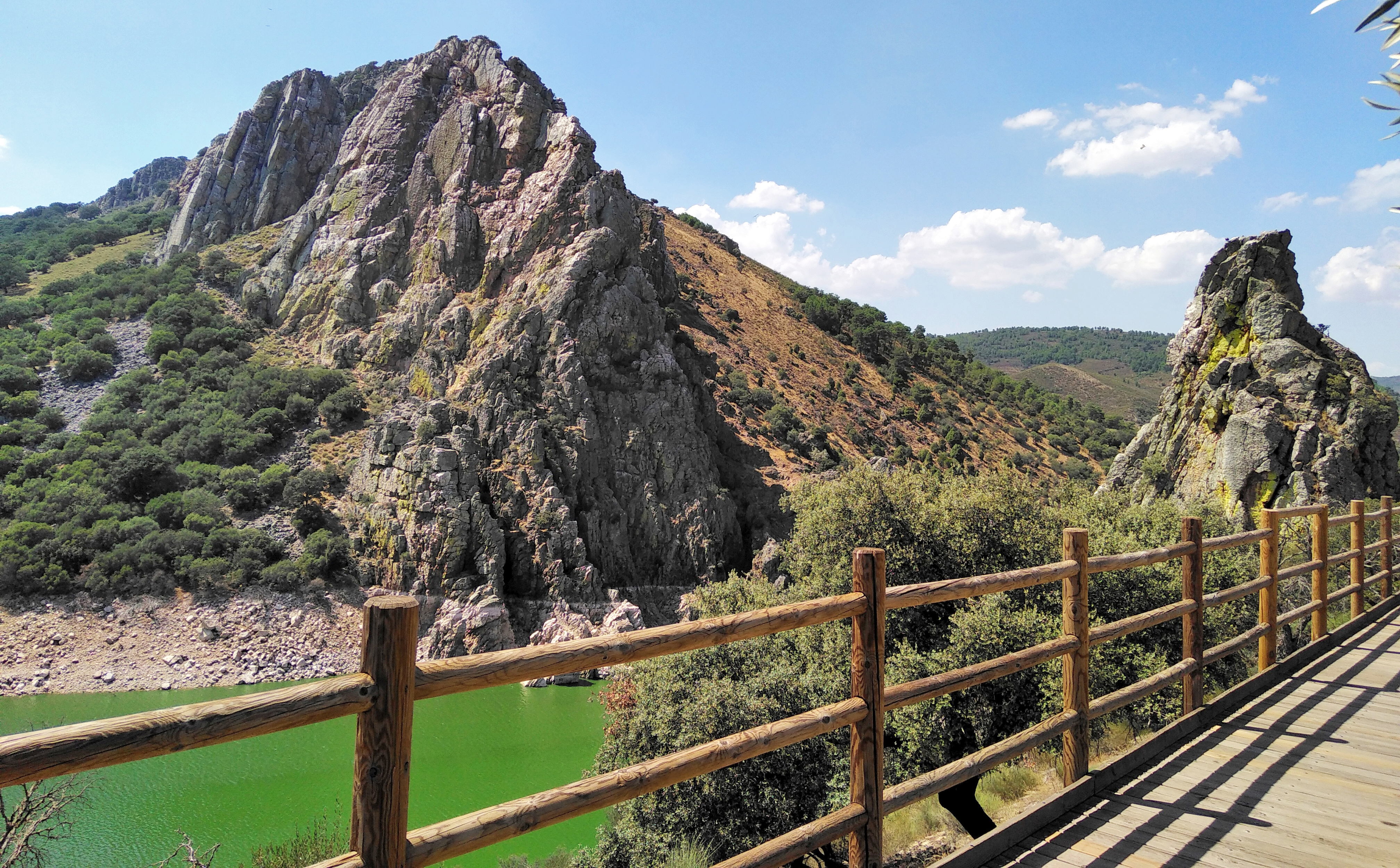 Mirador del Salto del Gitano, and view of the Tagus River in its path. In Monfragüe, Extremadura. This is a photography of a Special Area of Conservation in Spain with the ID: ES4320077. Natura2000 entry, EEA entry